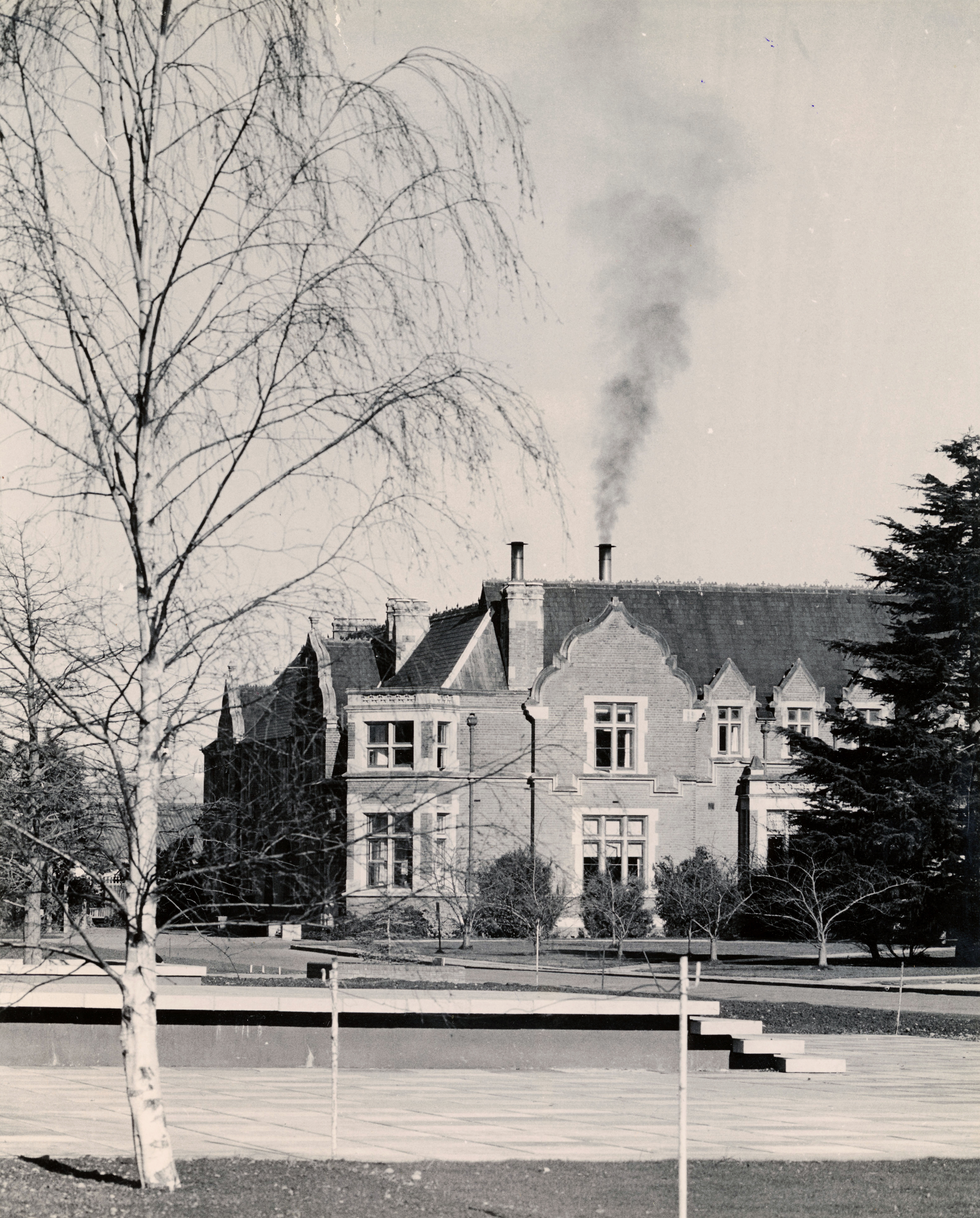 Ivey Hall, Lincoln University, viewed from the Hilgendorf Building